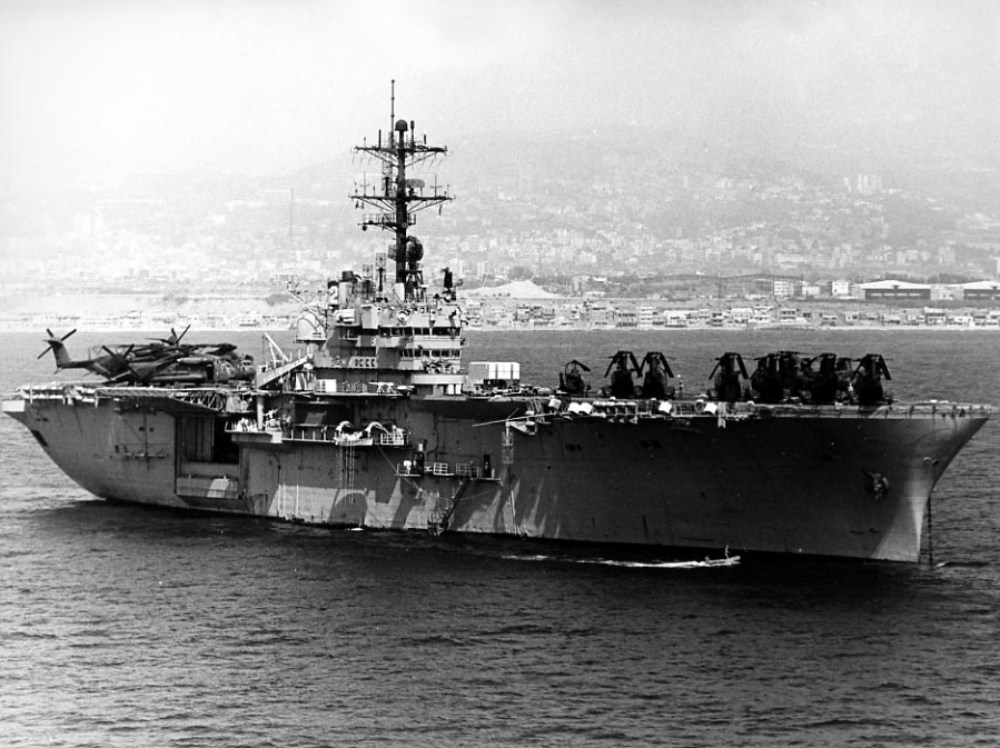 The U.S. Navy amphibious assault ship USS Iwo Jima (LPH-2) at anchor off the coast of Lebanon, circa in the early 1980s. Note the Sikorsky CH-53E Super Stallion on deck which entered service in 1981.